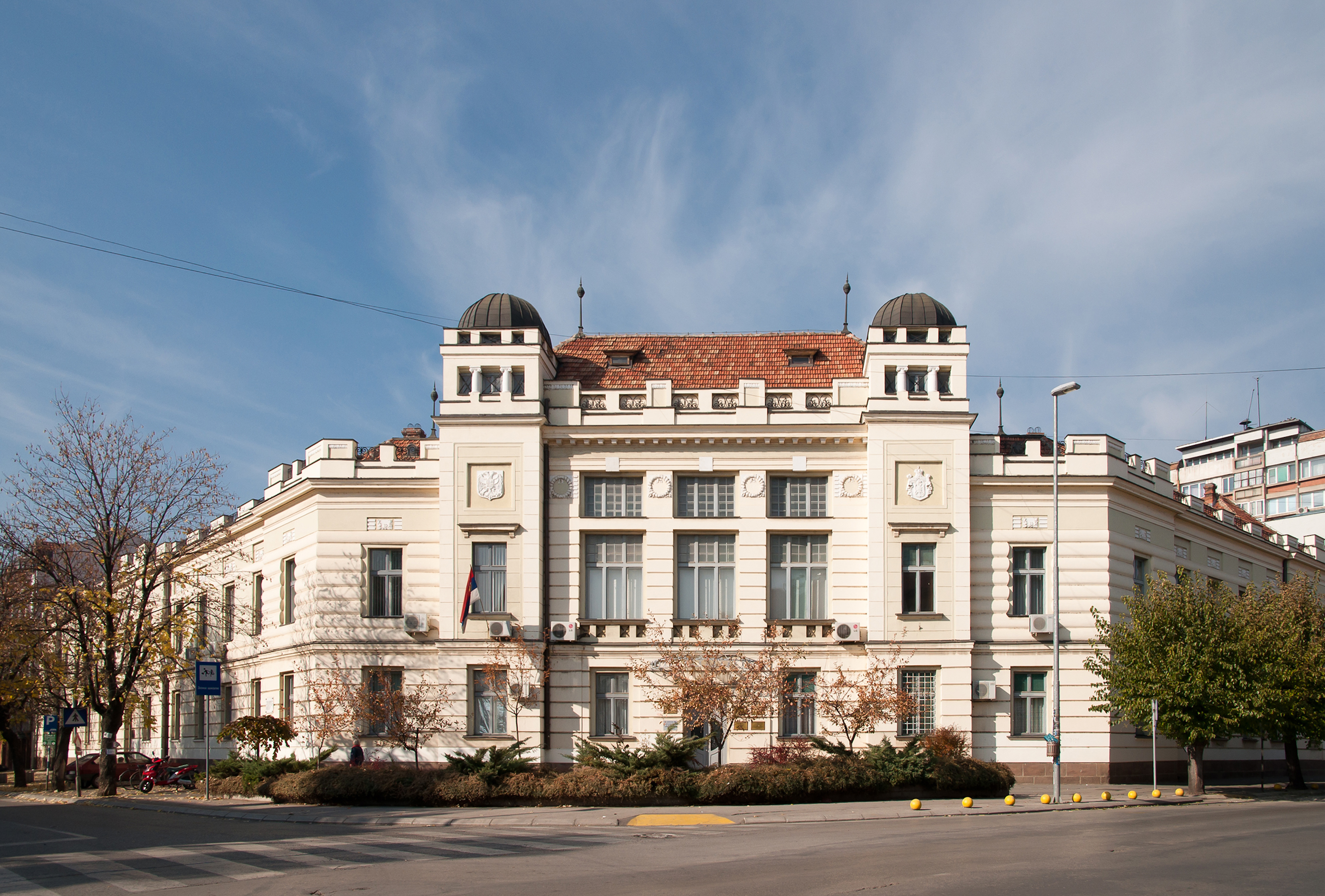 The courthouse in Pirot, Serbia.